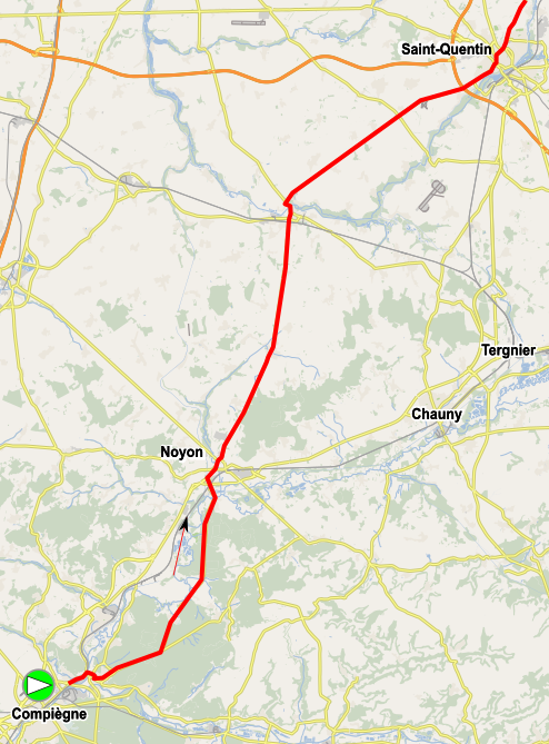 Map of Paris-Roubaix 2017: part 1